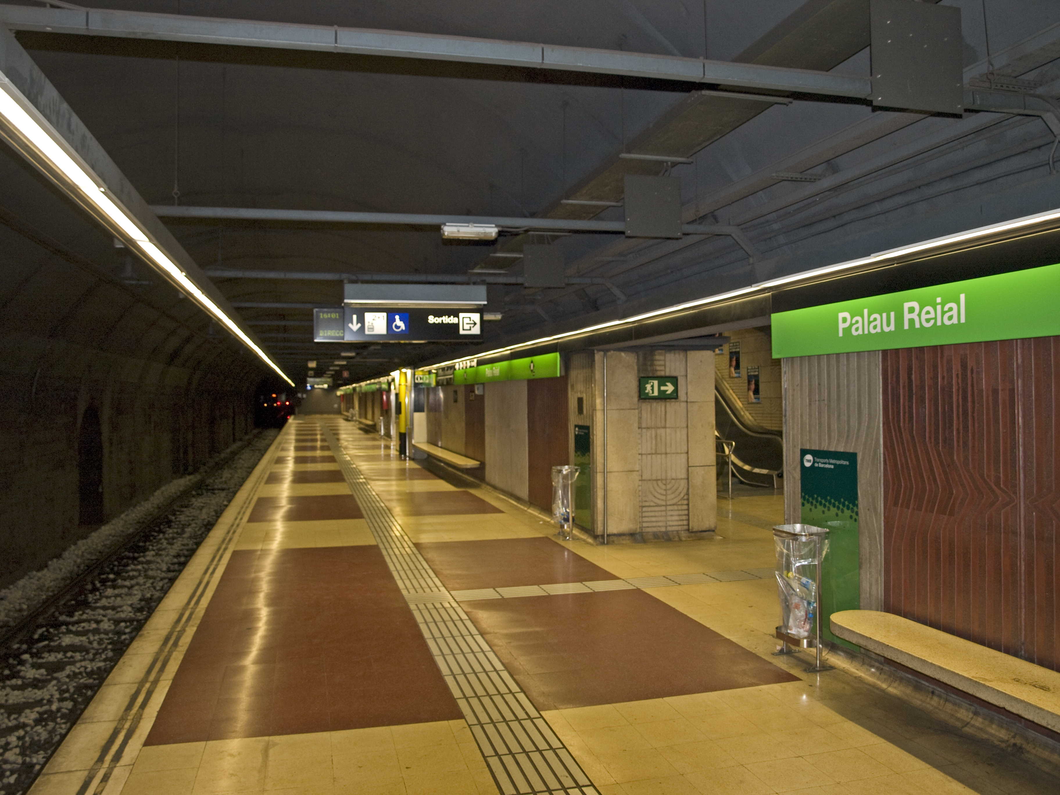 Palau Reial station, line L3, northbound platform, Barcelona Metro